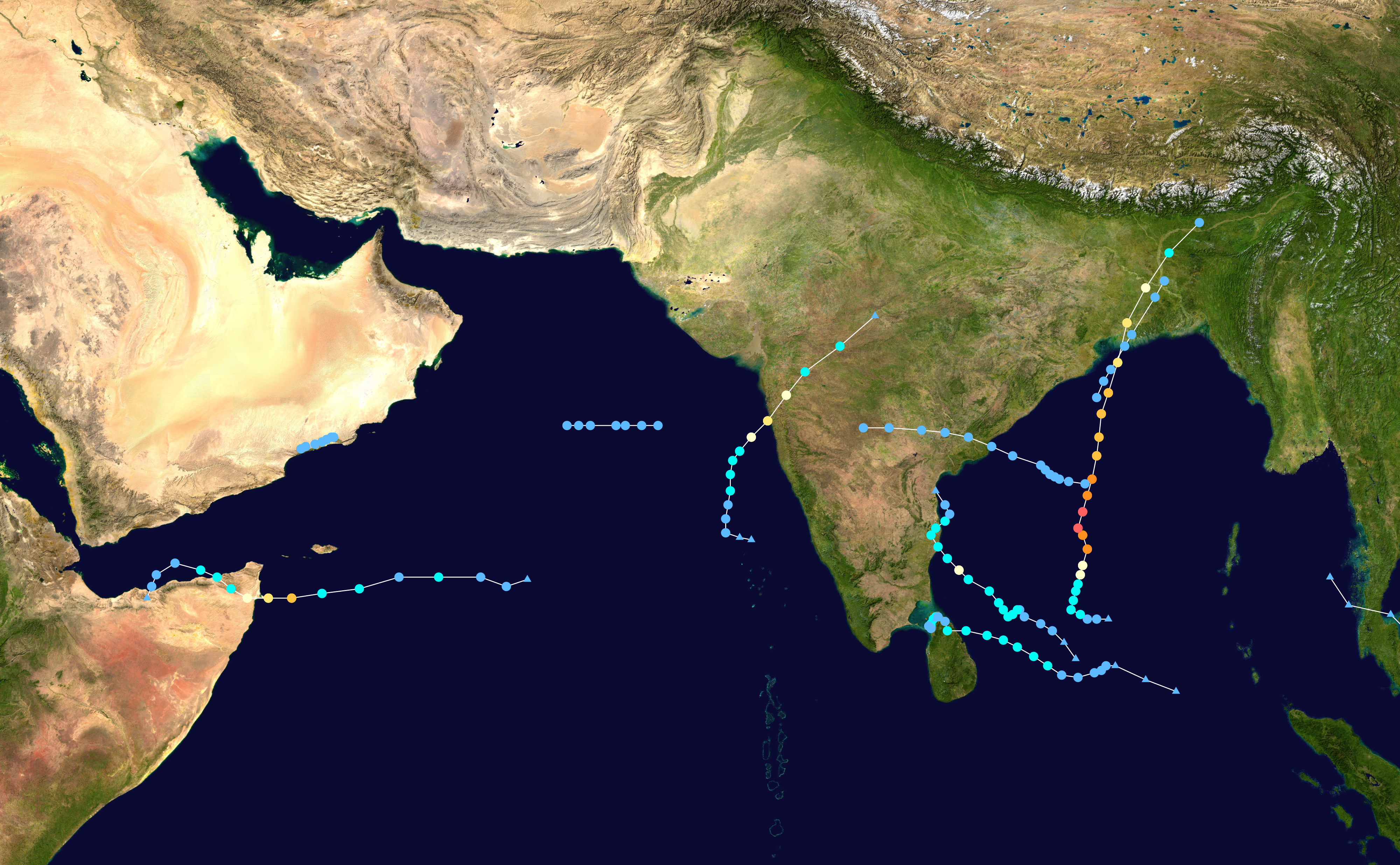 This map shows the tracks of all tropical cyclones in the 2020 North Indian Ocean cyclone season. The points show the location of each storm at 6-hour intervals. The colour represents the storm's maximum sustained wind speeds as classified in the Saffir-Simpson Hurricane Scale (see below), and the shape of the data points represent the type of the storm. Map generation parameters: --res 4000 --extra 1 --dots 0.2 --lines 0.04 --xmin 40 --xmax 100 --ymin 0 --ymax 35 Saffir–Simpson scale Tropical depression≤38 mph≤62 km/h Category 3111–129 mph178–208 km/h Tropical storm39–73 mph63–118 km/h Category 4130–156 mph209–251 km/h Category 174–95 mph119–153 km/h Category 5≥157 mph≥252 km/h Category 296–110 mph154–177 km/h Unknown Storm type Tropical cyclone Subtropical cyclone Extratropical cyclone / Remnant low / Tropical disturbance / Monsoon depression